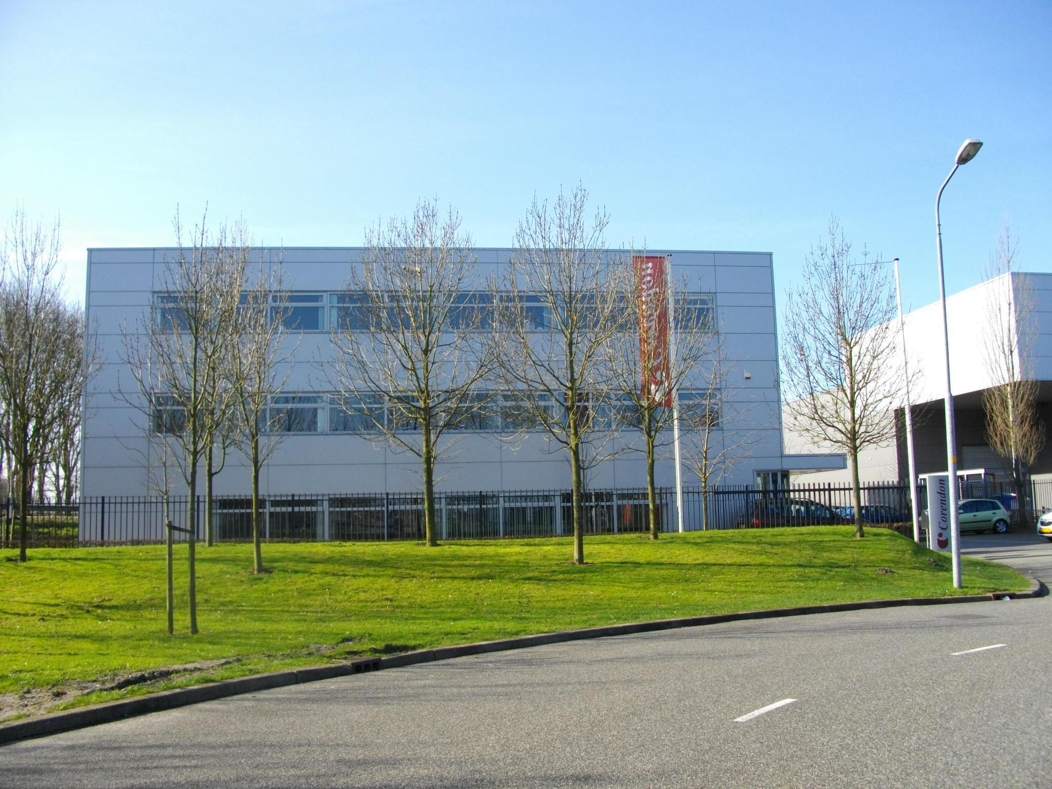 Amsterdam branch office of Corendon Airlines and head office of Corendon Dutch Airlines, Lijnden, near Schiphol, the Netherlands. Picture taken at the request of user WhisperToMe. - Singaporestraat 82 1175 RA LIJNDEN